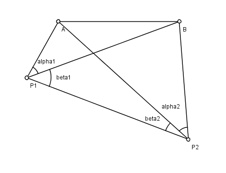 Diagram for Hansen Problem (mathematics). My own work.